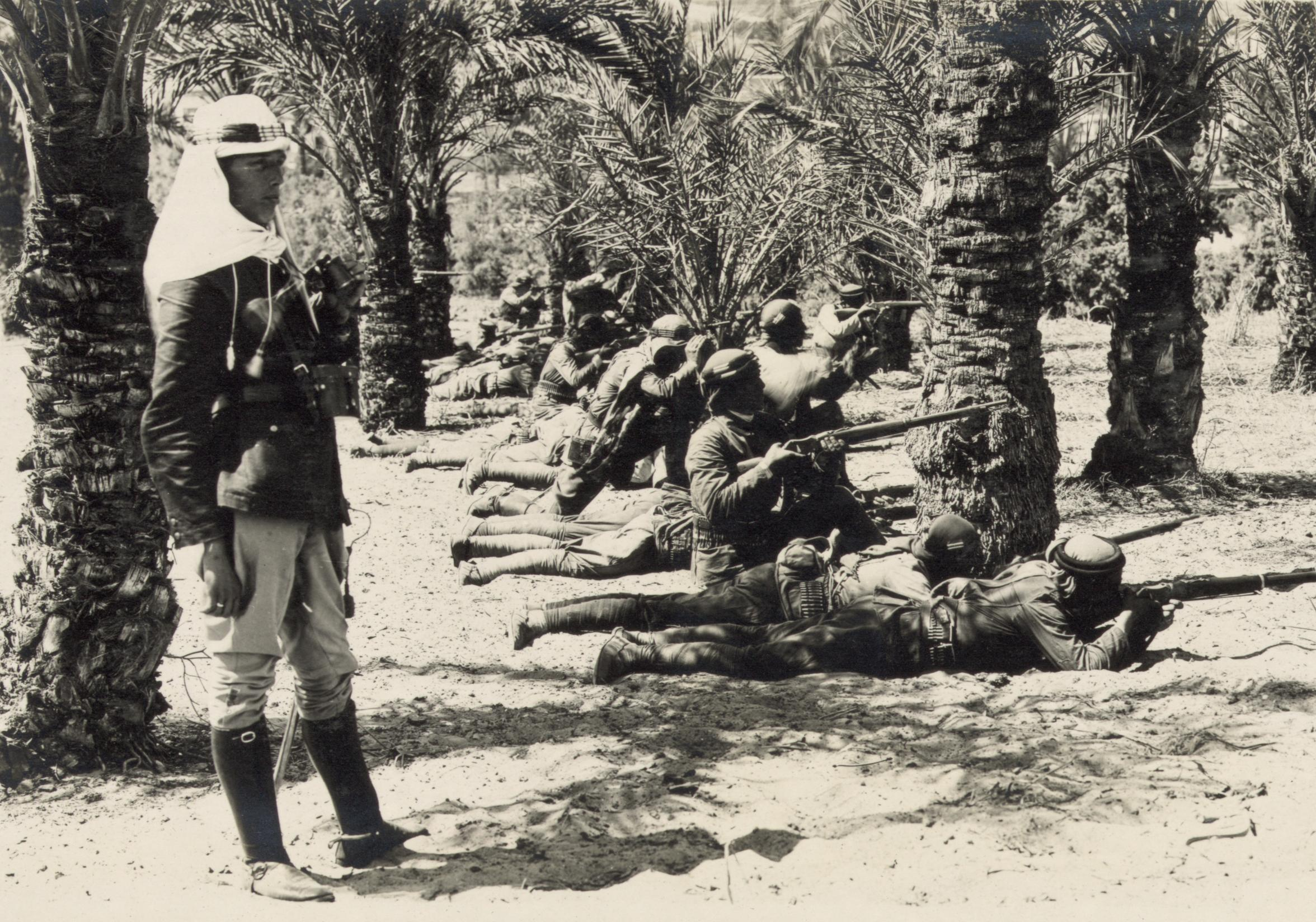 Battle of Katiah [Qatia], 1915. Cropped image downloaded from the source listed below.